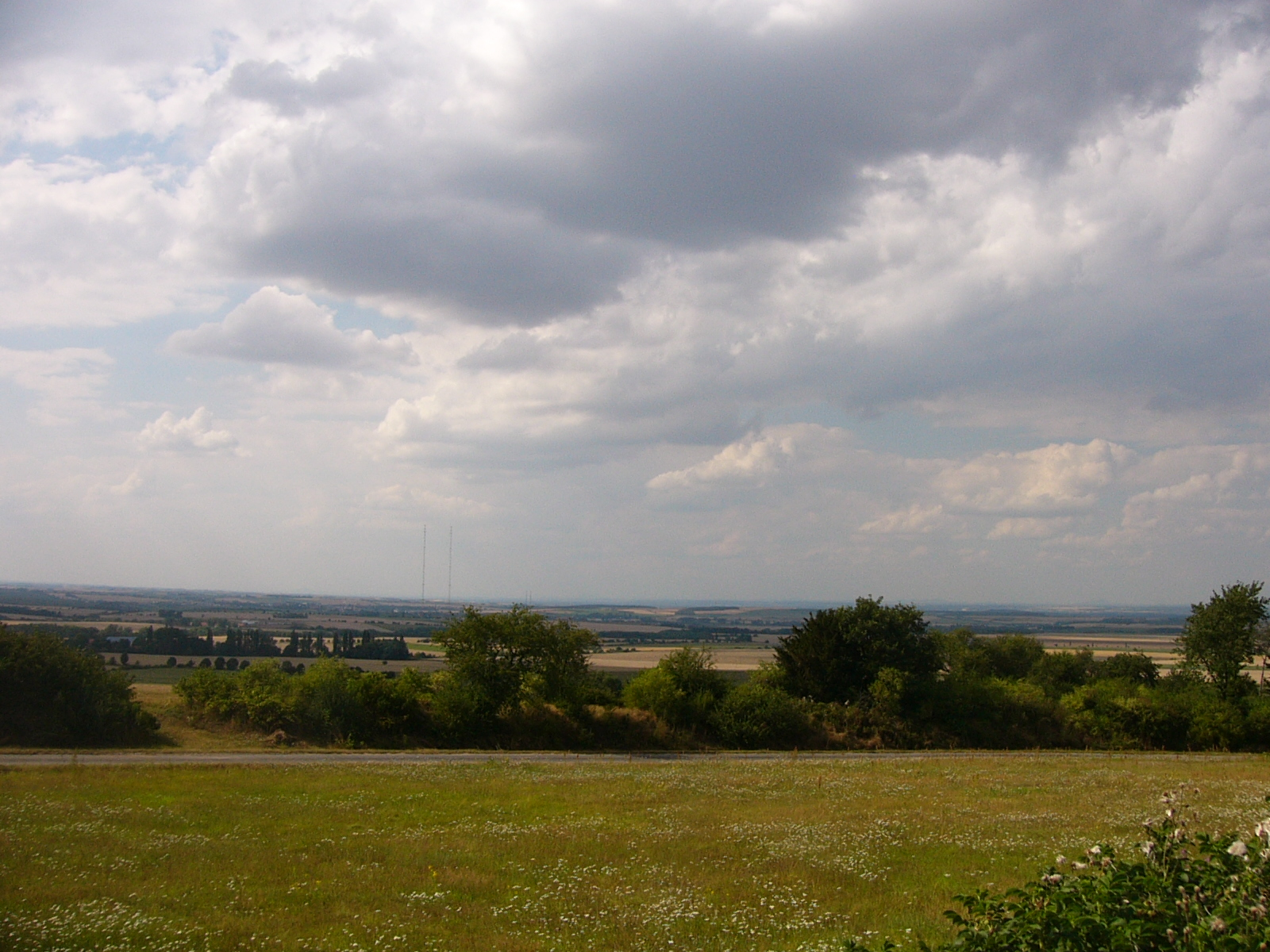 Two Liblice masts (tallest structure in Czech Republic) on horizon, view from Battle of Lipany monument